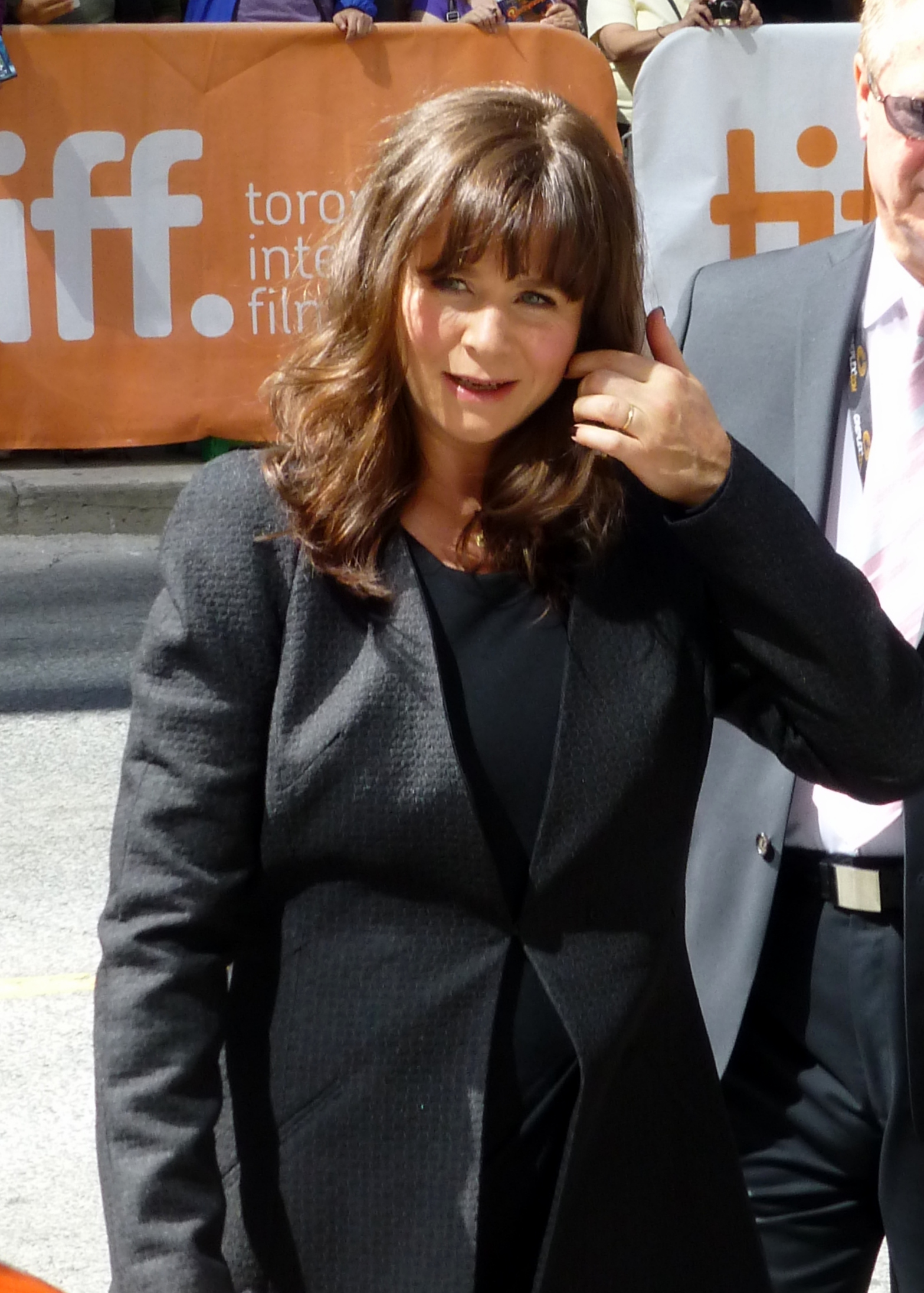 Emily Watson at the premiere of Belle, Toronto Film Festival 2013